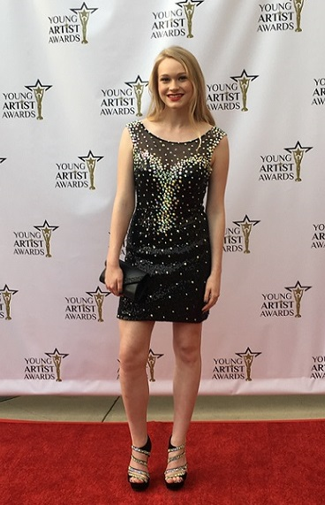 Rachelle Henry at the 38th Young Artist Awards 20017